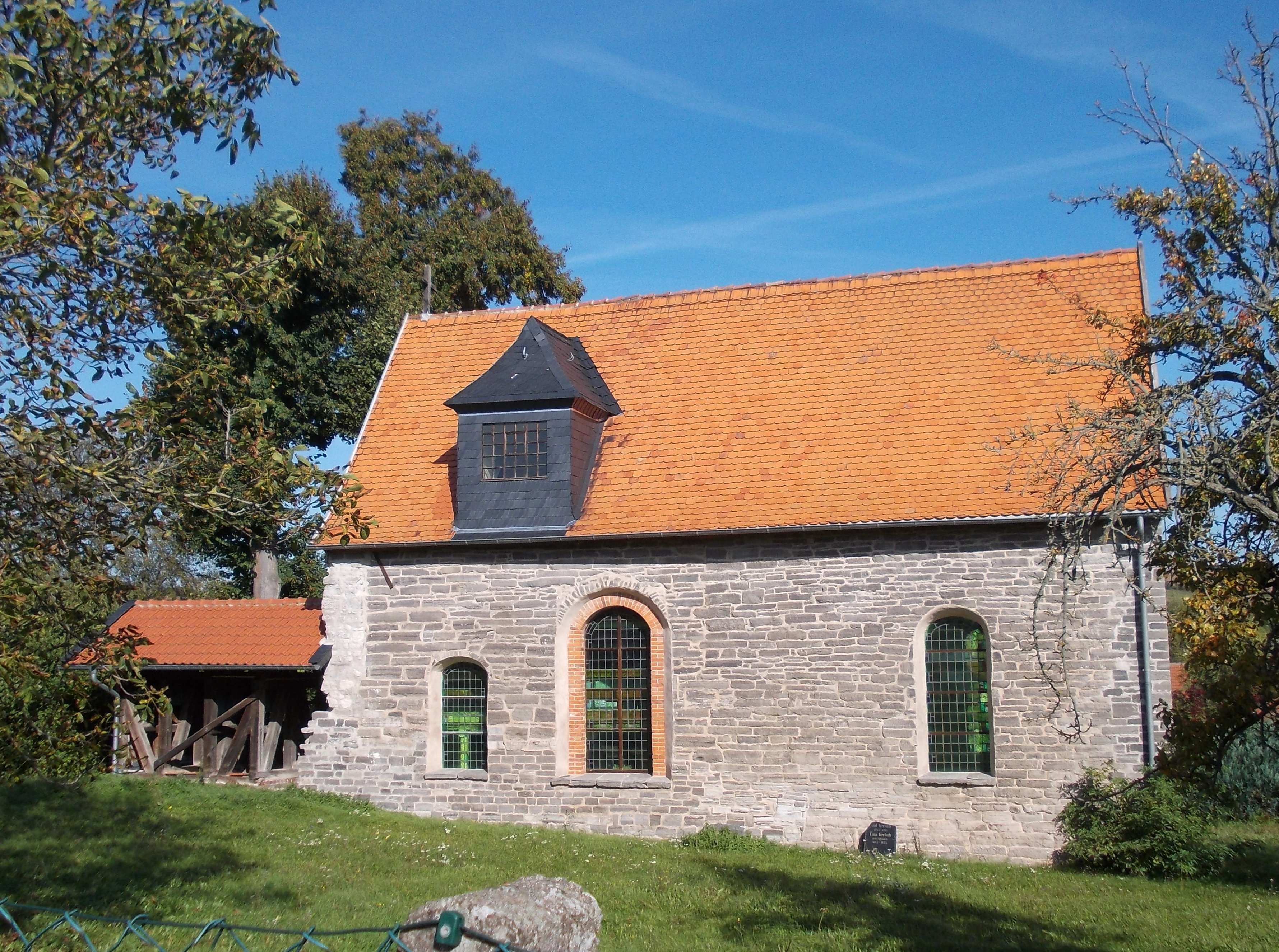 St. Catherine's Church in Steigerthal (Nordhausen, Thuringia)